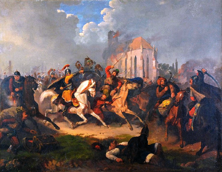 Recovery of Tartar captives